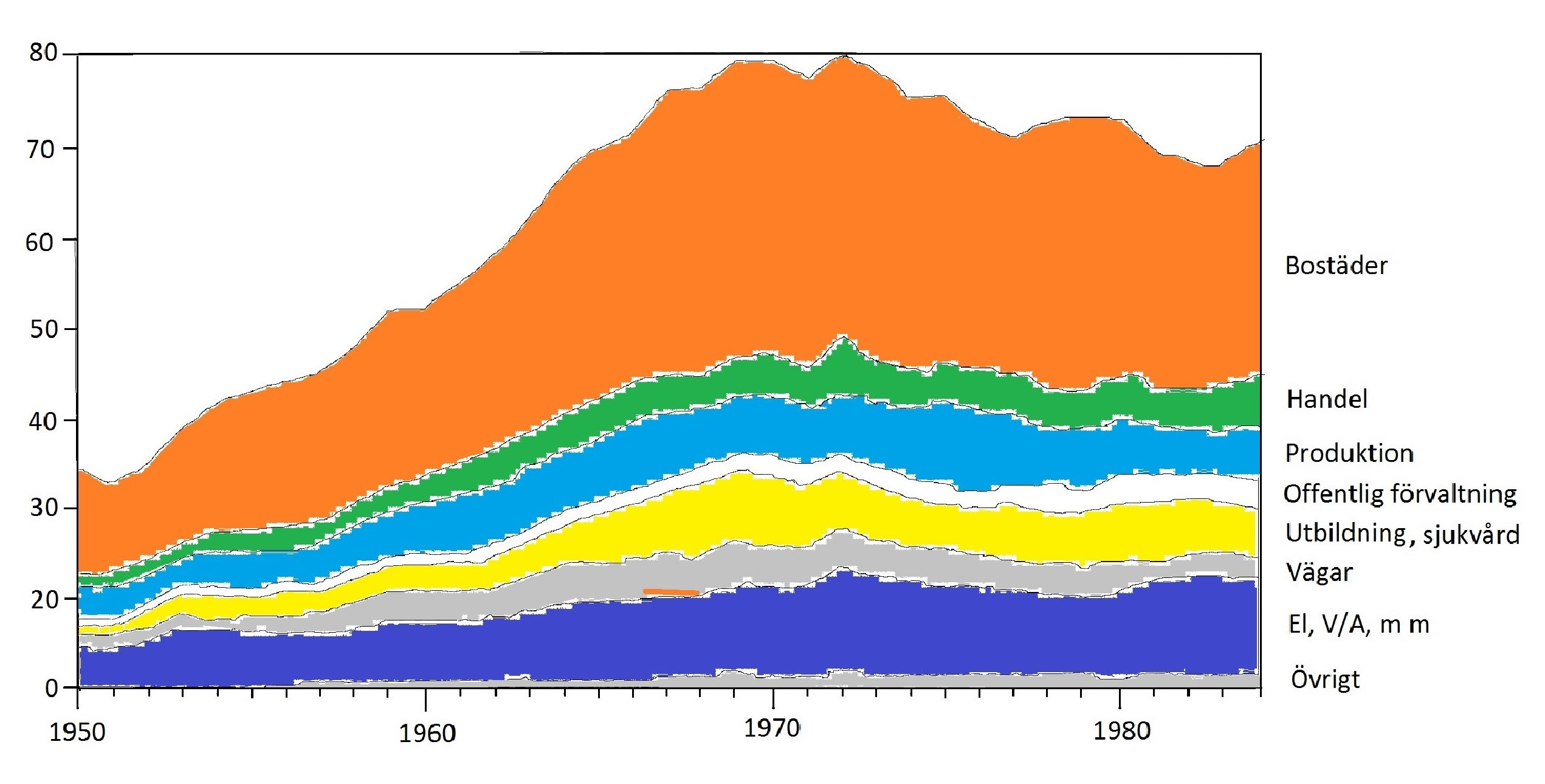 Swedish investment in dwelling, etc.